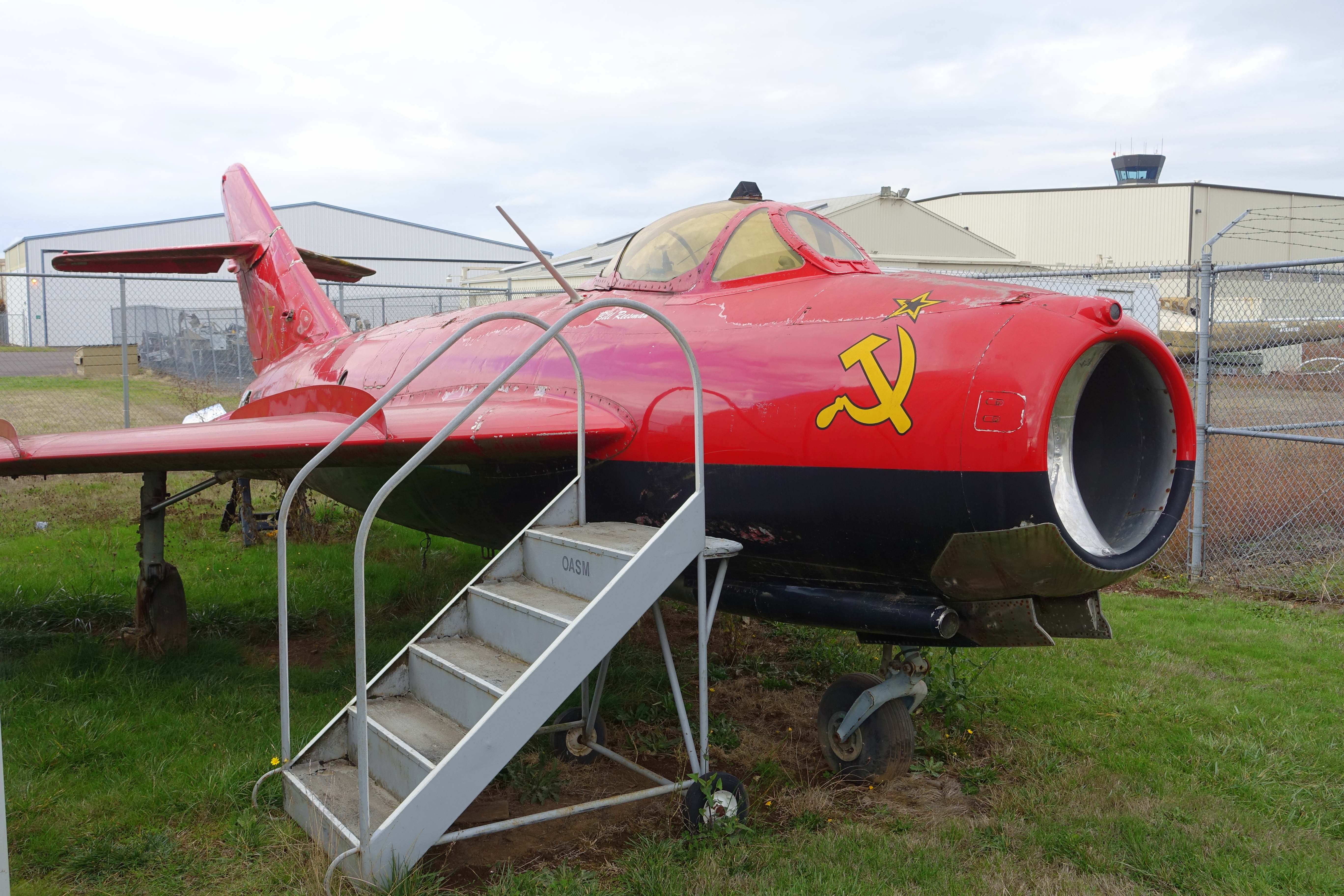 Exhibit in the Oregon Air and Space Museum - Eugene, Oregon, USA.